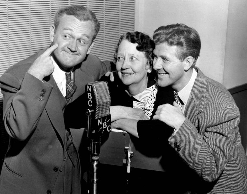 Photo of Cliff Arquette (left), Jane Morgan and Charles Dant from the radio program Point Sublime. The photo was taken at rehearsal-Morgan was an actress on the radio show and Dant was the musical director.